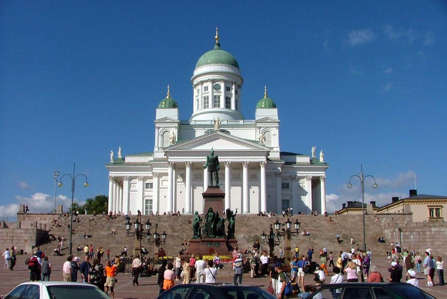 The Senate Square in downtown Helsinki, Finland during high tourist season in the summer. The Helsinki Cathedral is on the background, and in the middle of the square the statue of Alexander II of Russia can be seen.